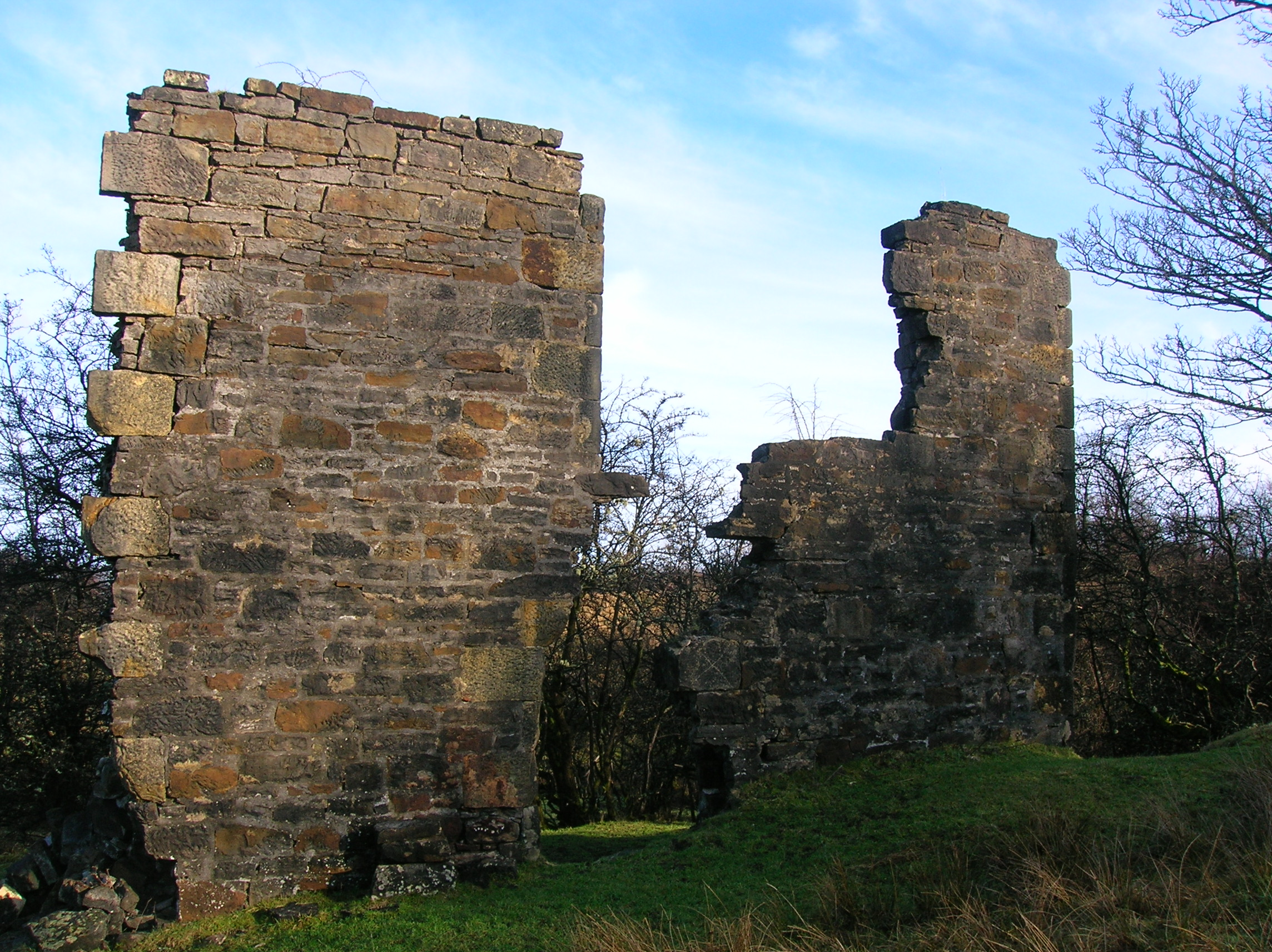 Bark Mill from the west, Mains House and Burn, Beith, North Ayrshire, Scotland.